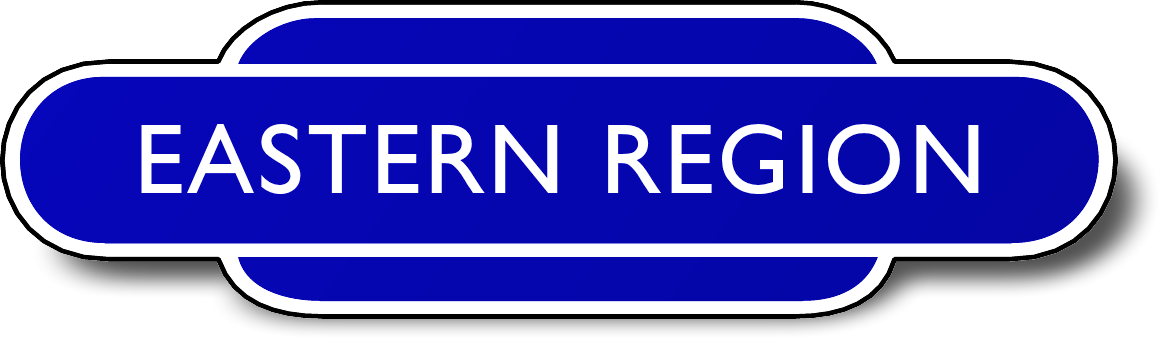 Self-made derivative of the railway station signage used by the British Transport Commission from nationalisation of the railways until the "British Rail" rebrand in the 1960s. Design based on the non-trademarked and not copyrightable station sign shape, with colours taken from standard reference works about the totems in use at the time.